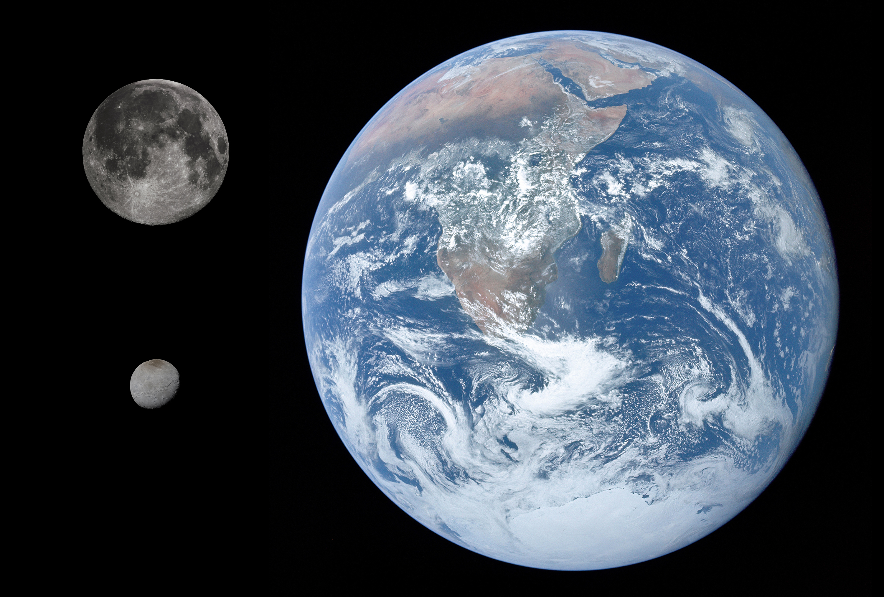 Diameter comparison of Charon, Moon, and Earth. Scale: Approximately 28.9 km per pixel.